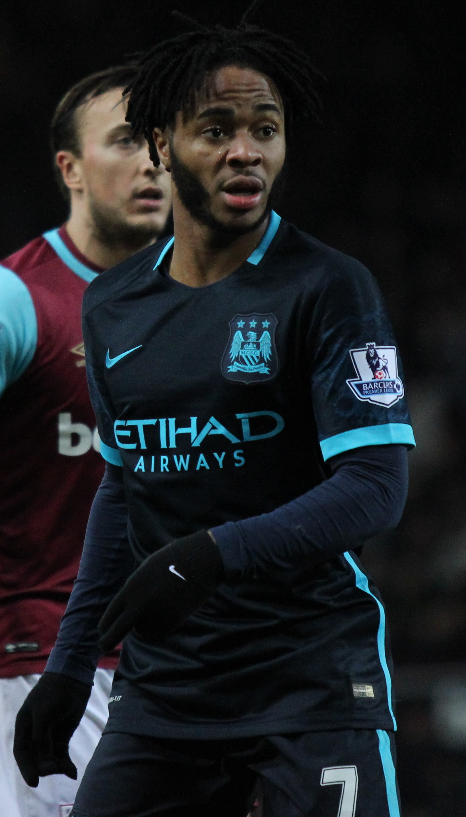 Raheem Sterling of Manchester City during the game against West Ham.